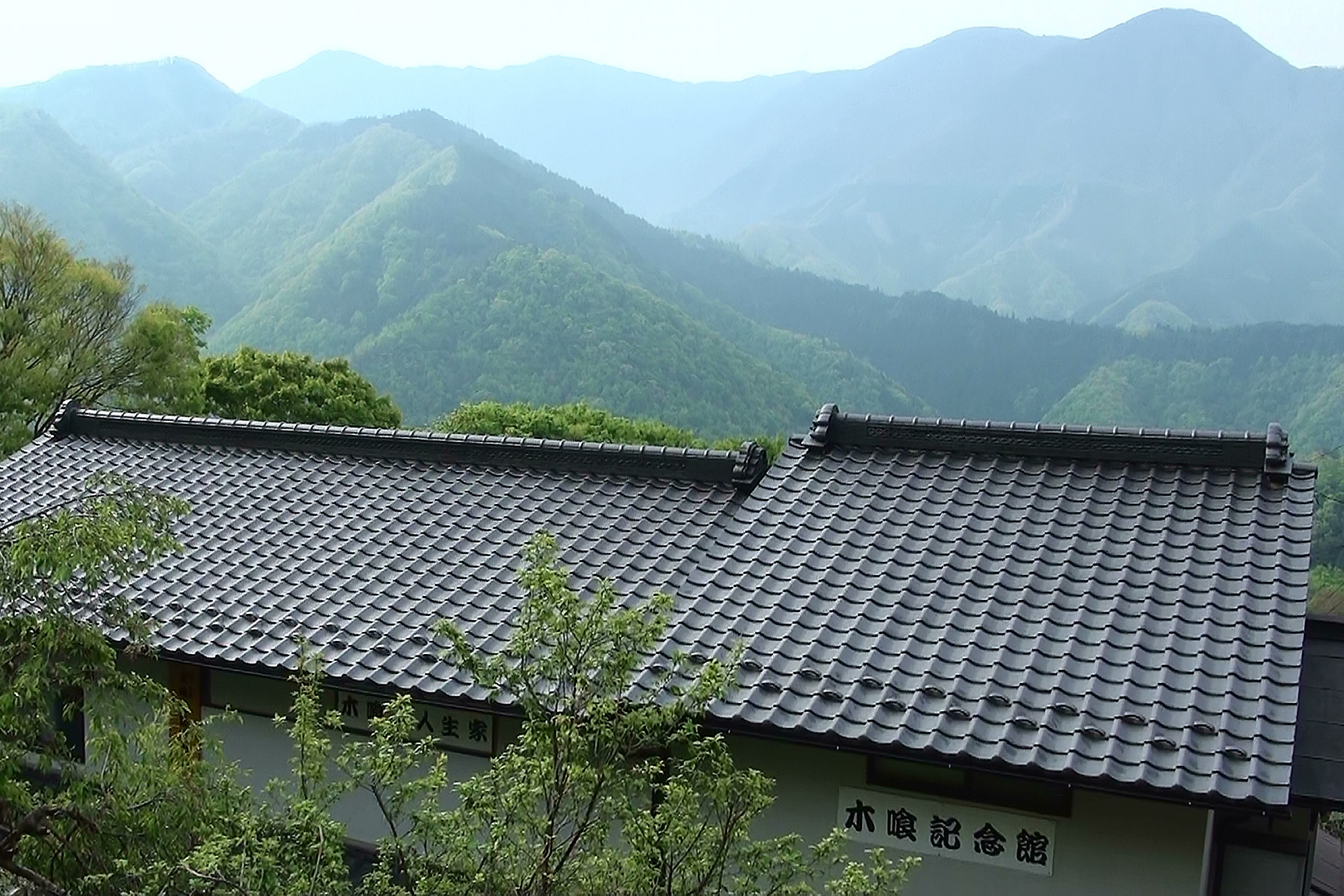 The birth village of famous sculptor Mokujiki